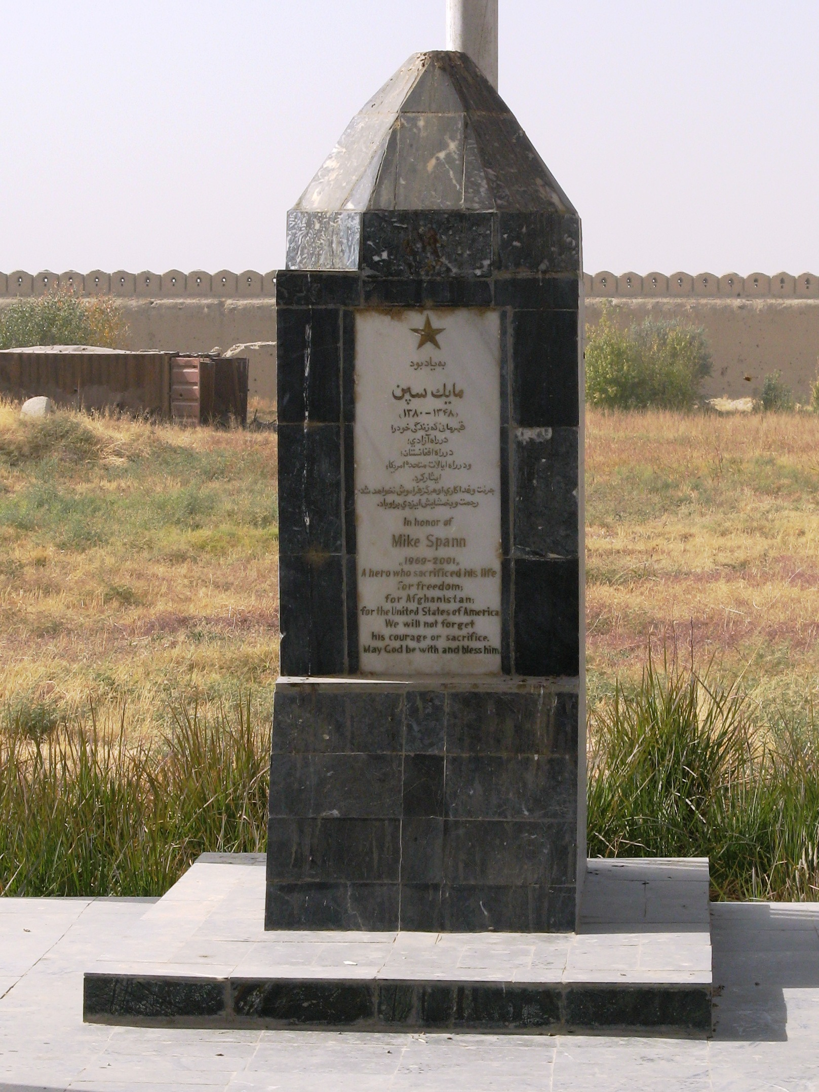 Memorial to Mike Spann at Qala-i-Jangi Fortress outside of Mazar-i-Sharif, Afghanistan.